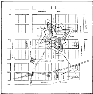 Fort Shelby overlain on 1920s Detroit Street map